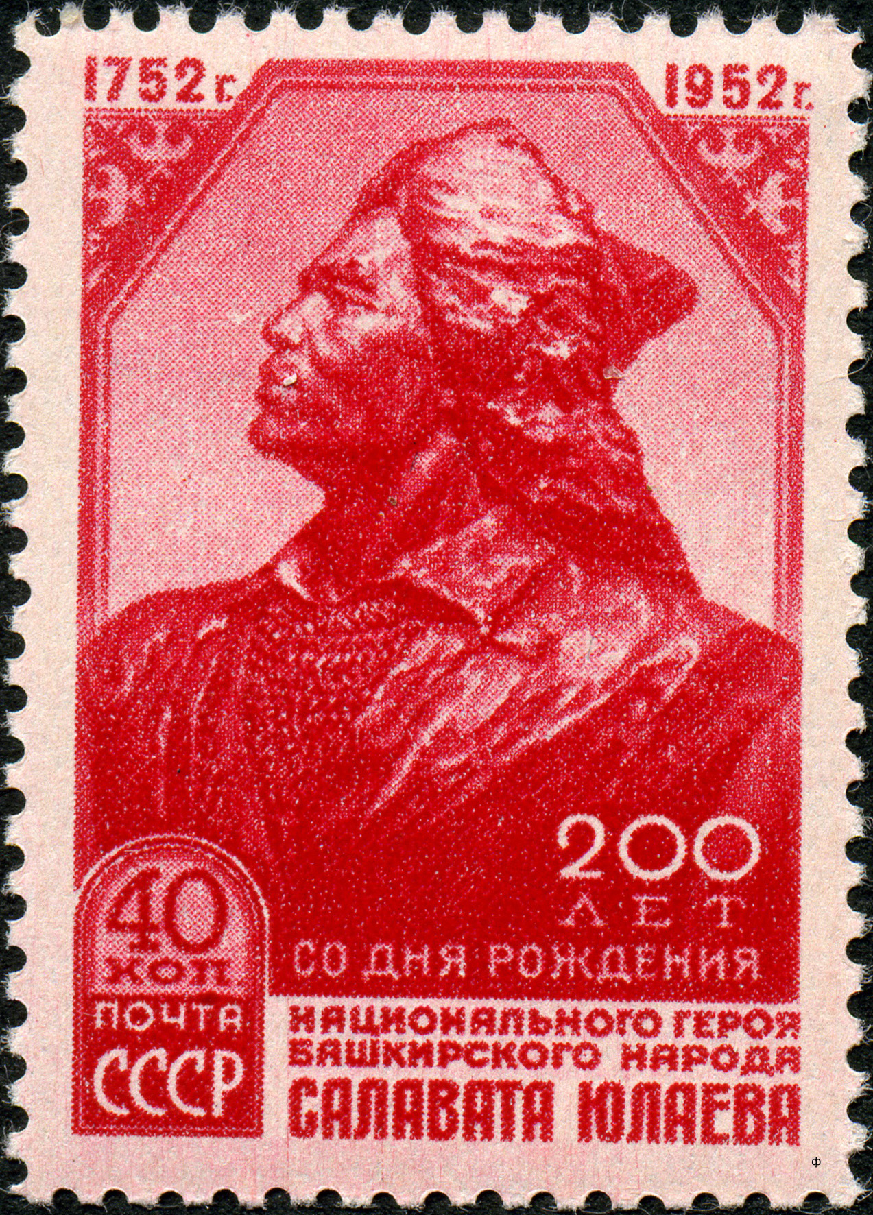 Soviet Union stamp, Salavat Yulayev, S. Yulayev's portrait from sculpture by T. Nechayeva in Ufa; 1952, 40 kop., used, CPA No. 1685.